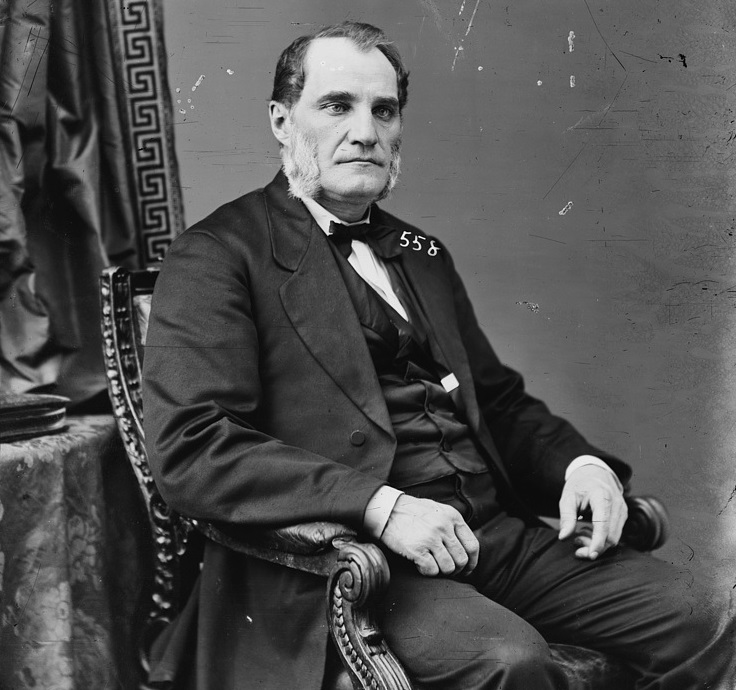 William E. Lansing, New York Congressman